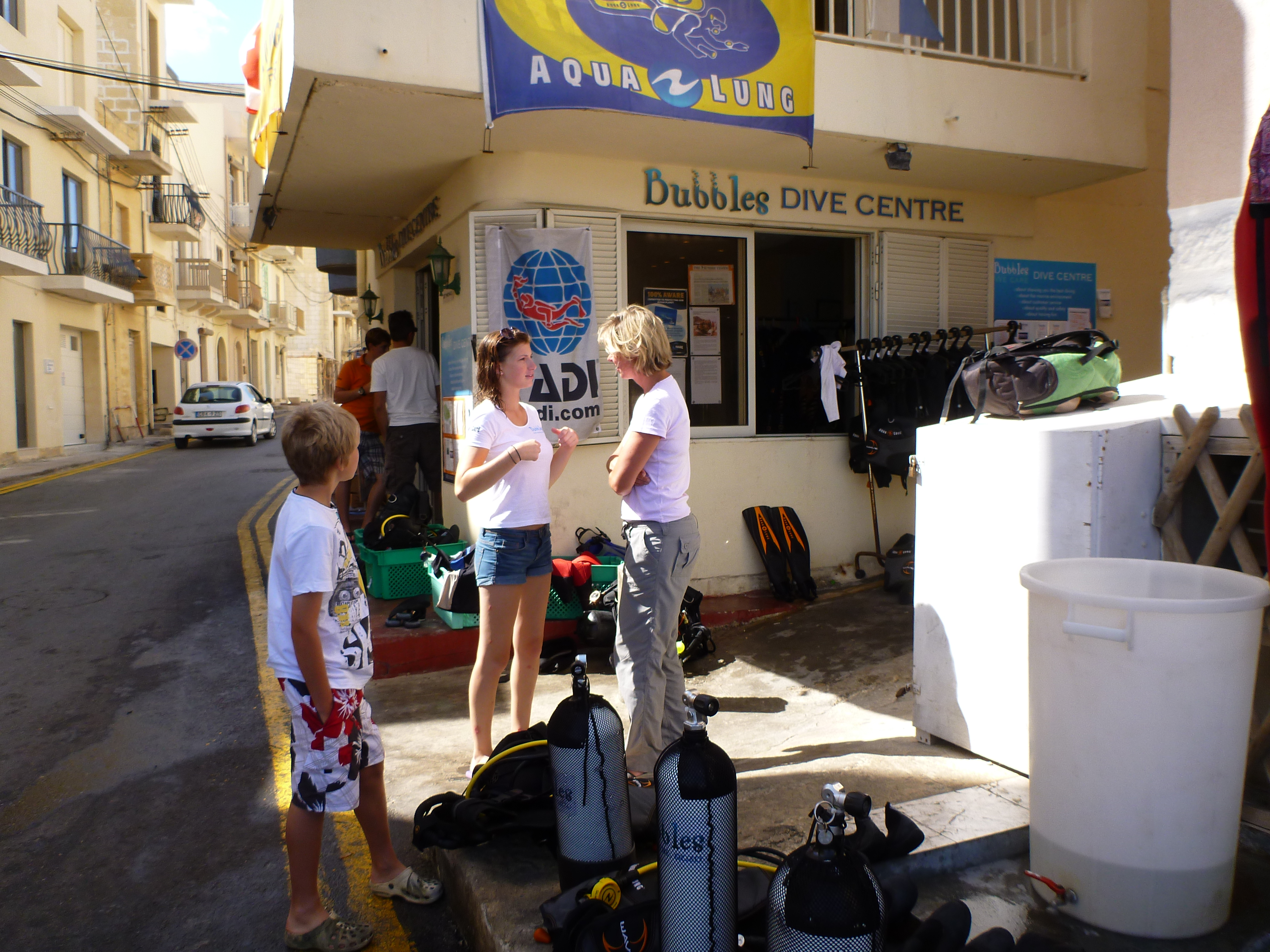 One of many other diving center in Marsalforn (Malta)